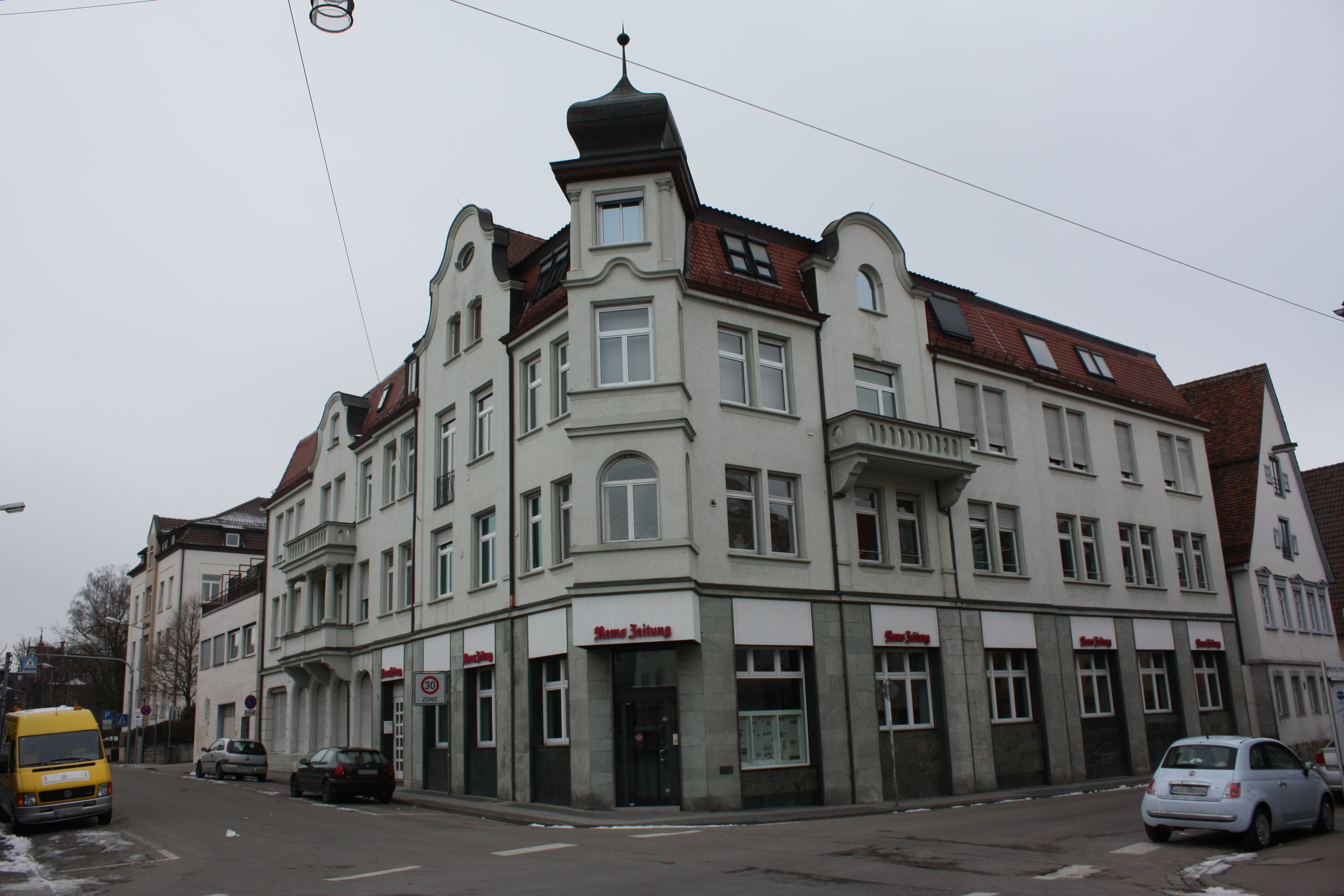 Rems-Zeitung (German Newspaper) in Schwäbisch Gmünd, Germany